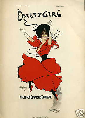 Scan of theatre poster. Theatre poster by Dudley Hardy for A Gaiety Girl, 1893